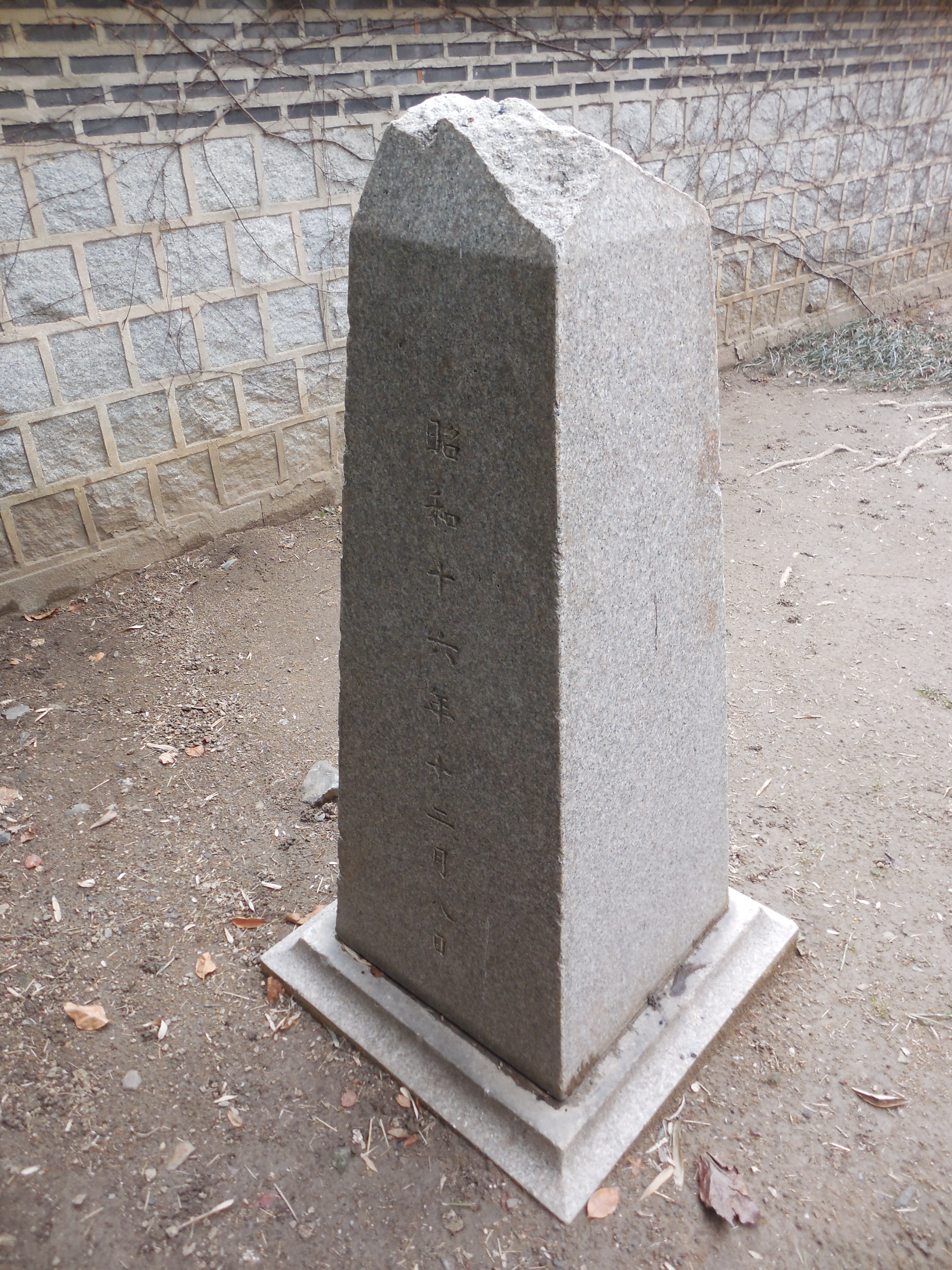 Tower for Rising Asia by Governor-General of Korea.